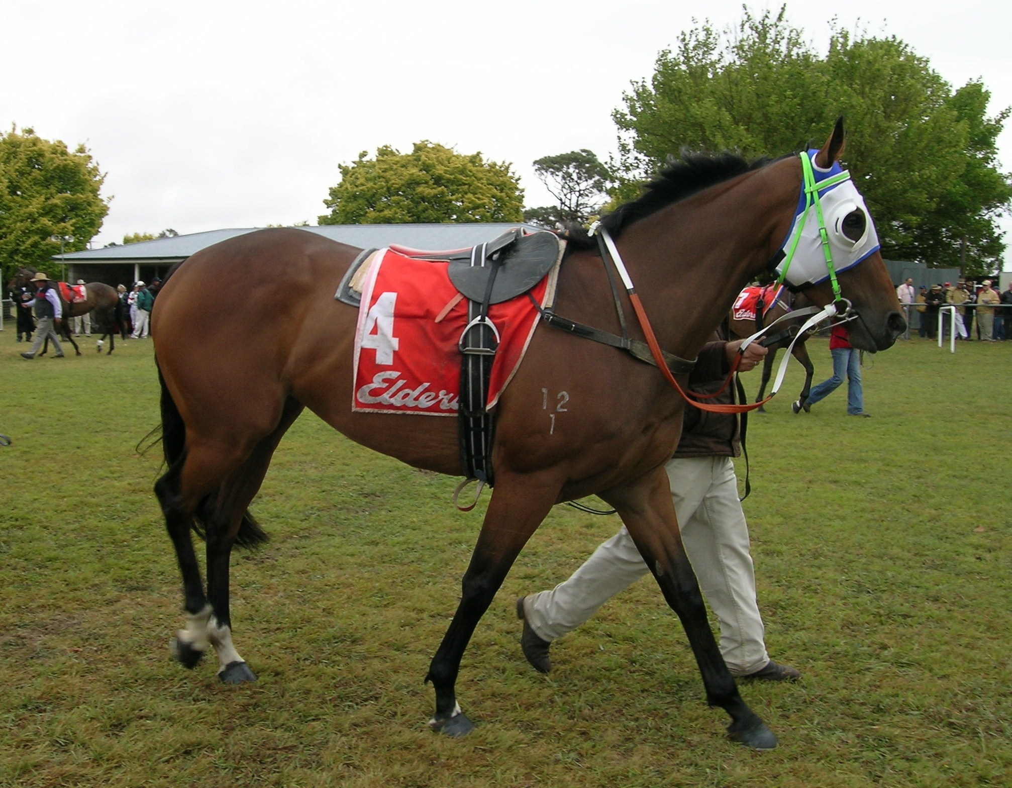 Visor blinkers on a Thoroughbred racehorse, Walcha, NSW